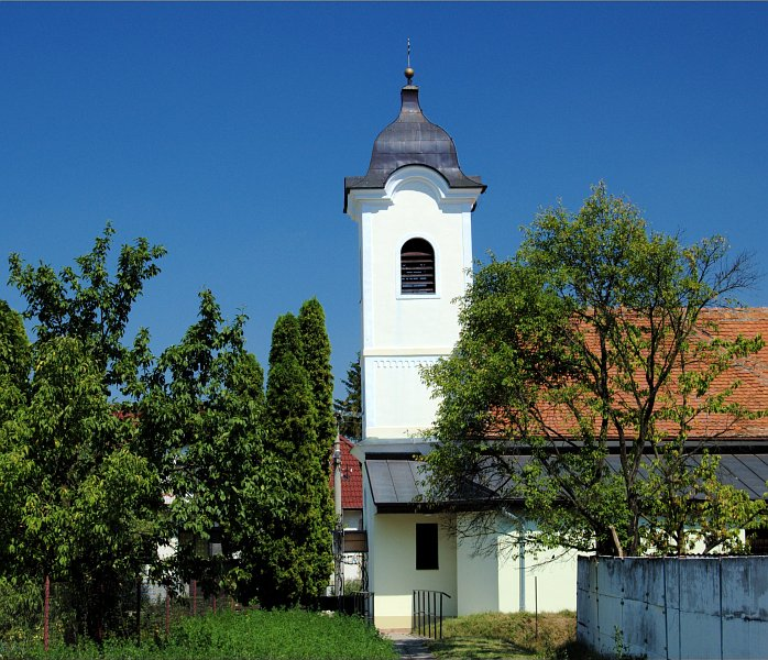 Letničie, church